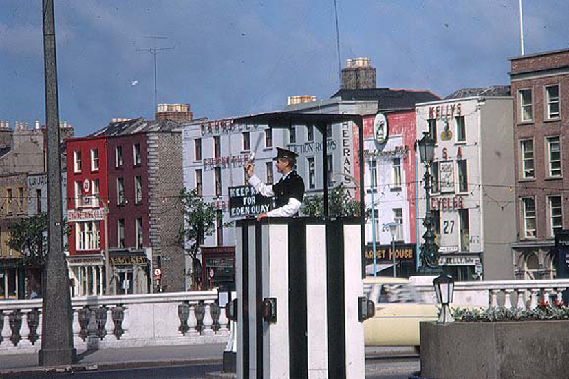 This shot gives a good view of the varied businesses on Bachelor's Walk in early 1960s Dublin. Date: June 1963 NLI Ref.: TIL861